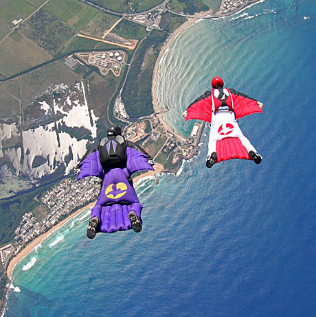 Two wingsuit flyers. Original description: “Scott and Mike over the coast”.